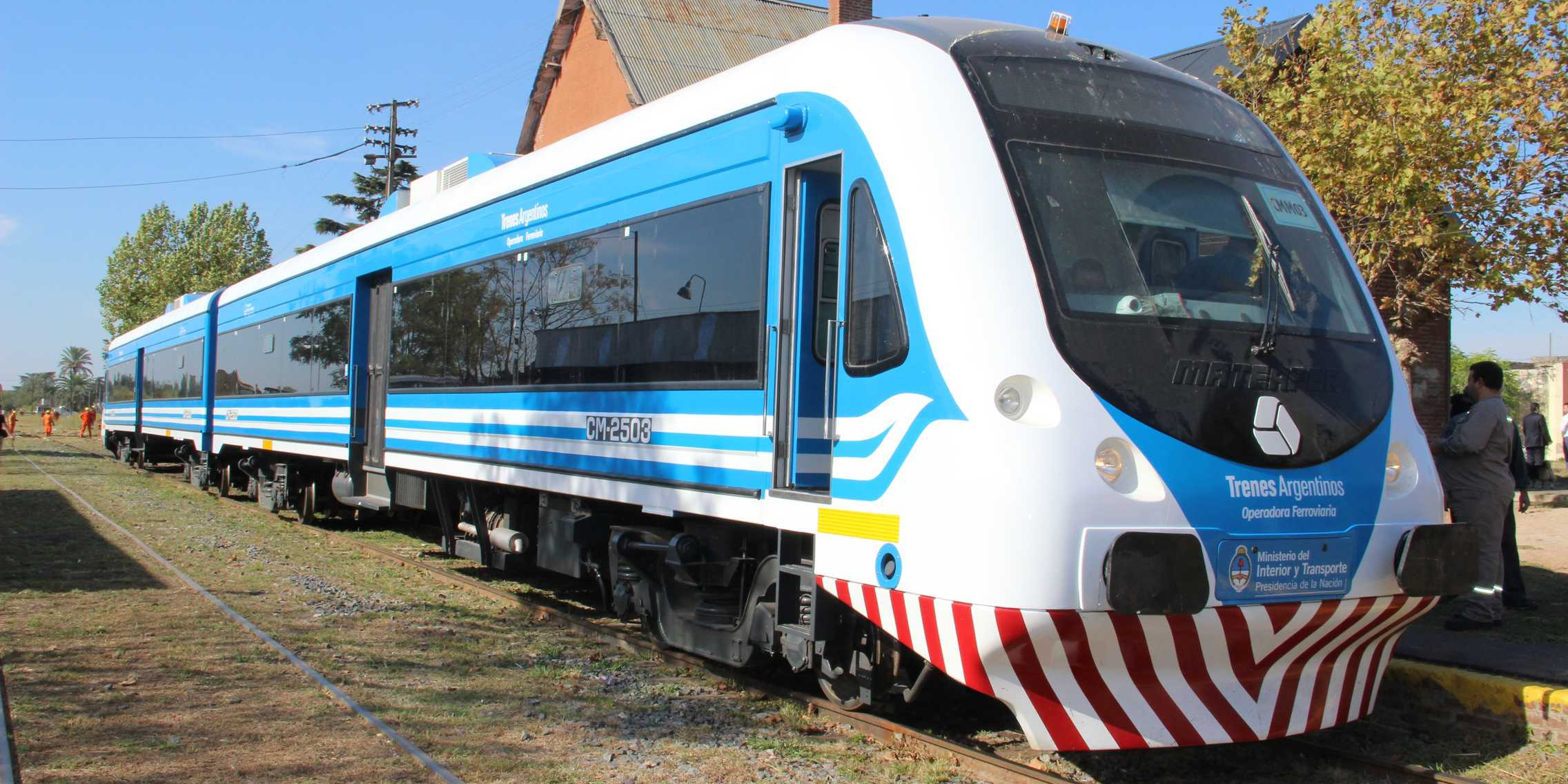 A Materfer CMM 400-2 DMU on the Mitre Line Capilla del Señor train station in Buenos Aires Province.